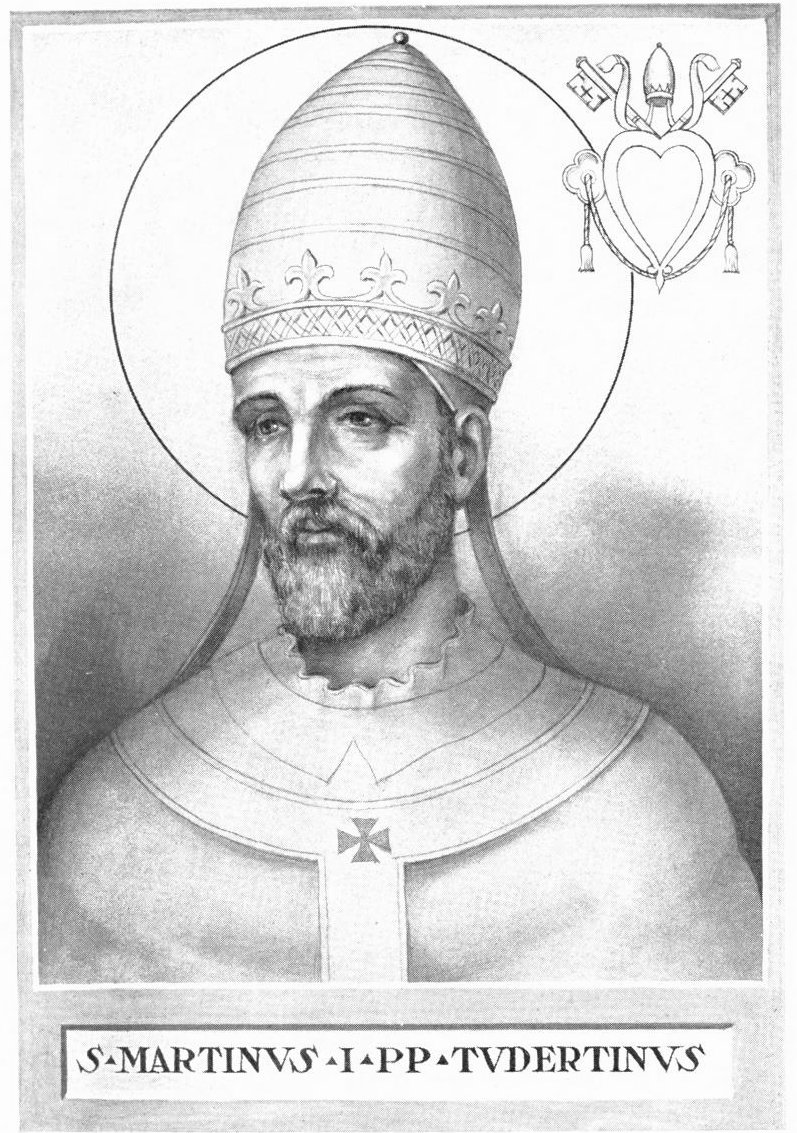 This illustration is from The Lives and Times of the Popes by Chevalier Artaud de Montor, New York: The Catholic Publication Society of America, 1911. It was originally published in 1842.